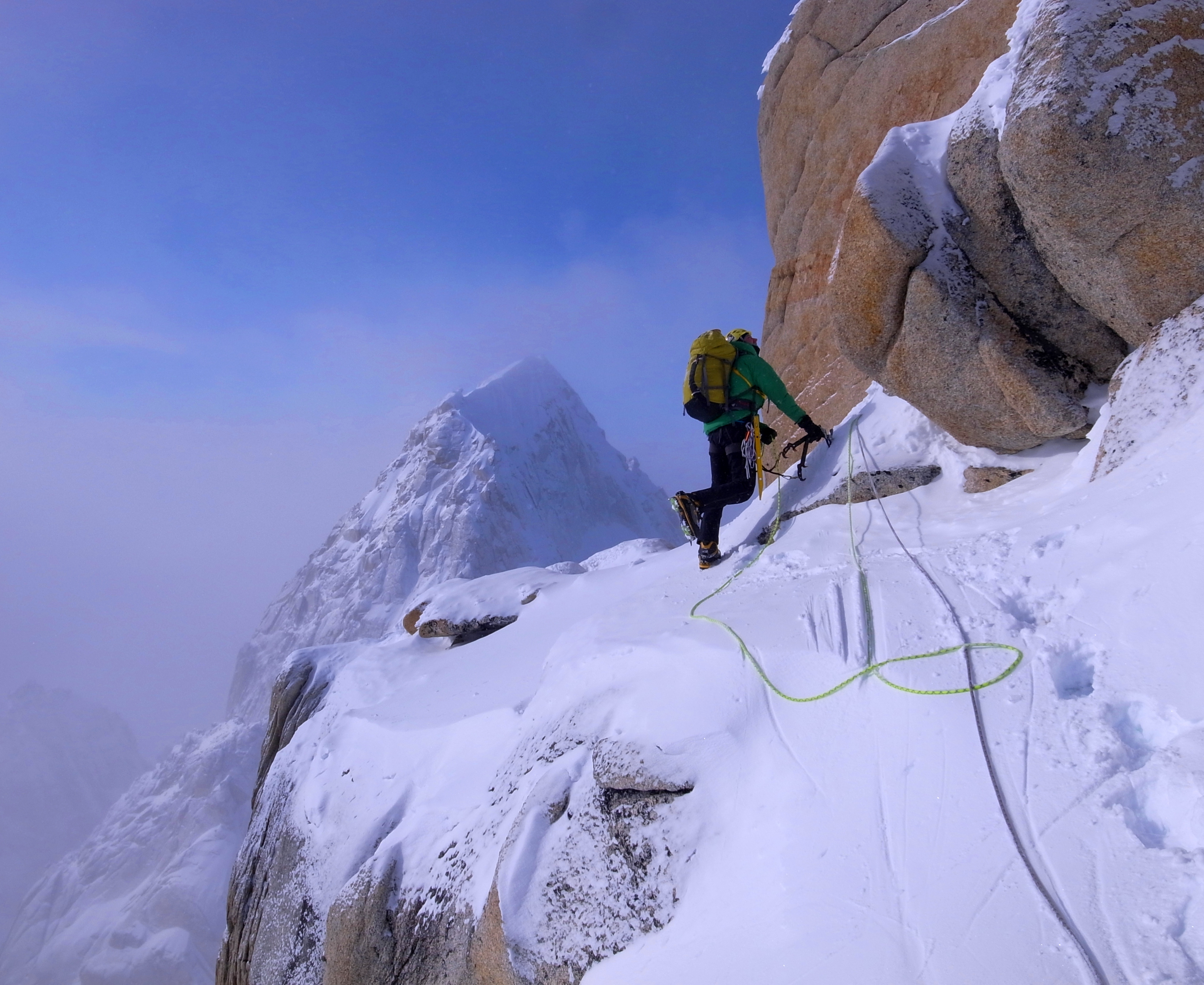 Jess Roskelley near the summit of the Citadel during the first ascent of the Hypa Zypa Couloir. Photo by: Kristoffer Szilas.